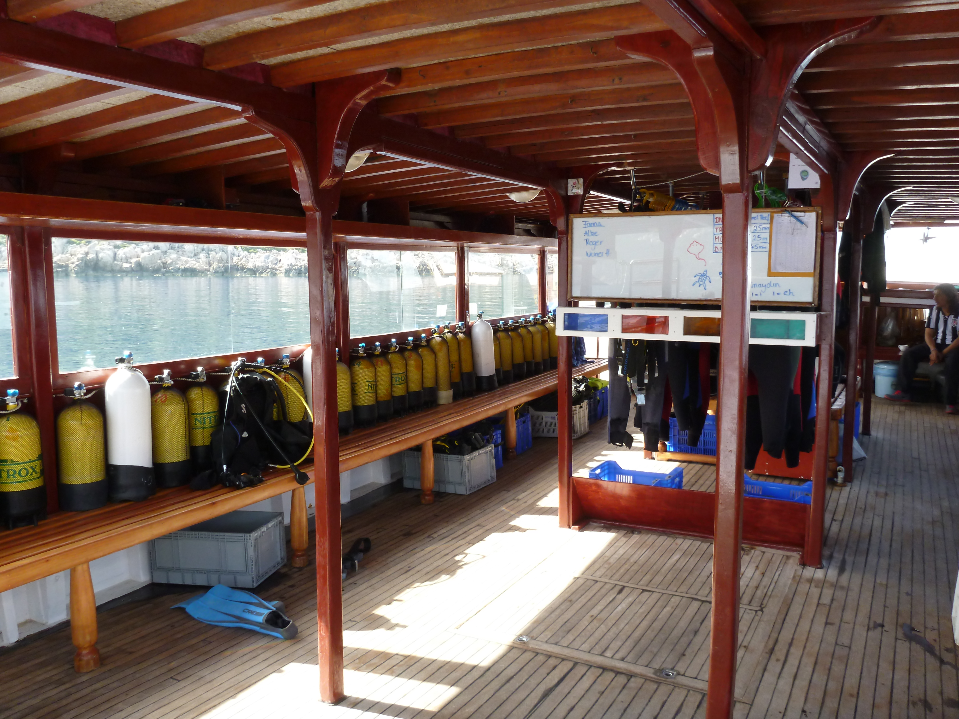 Scuba dive boat owend by a Dive Center to organise dive trips